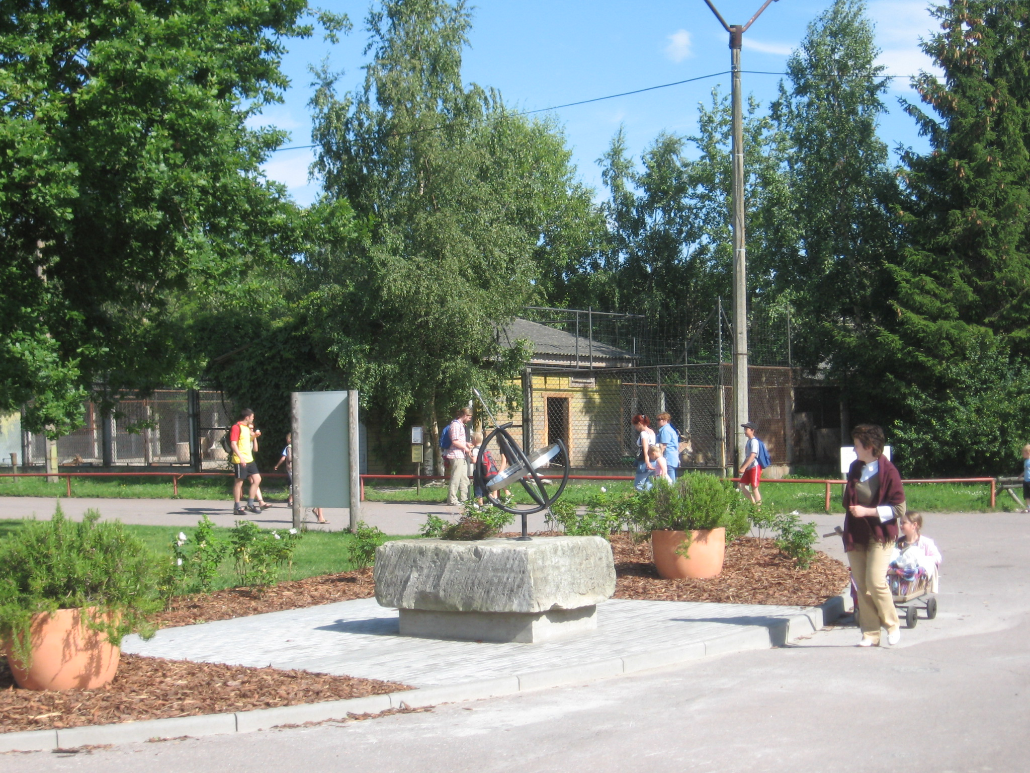 Tallinn Zoo